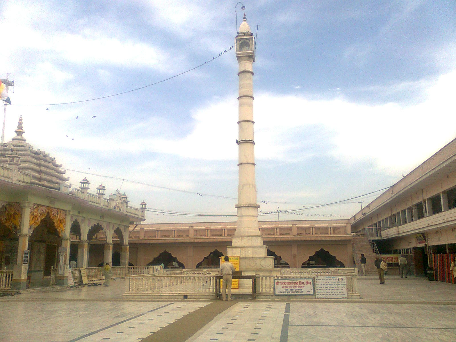 Maansthamb in temple complex